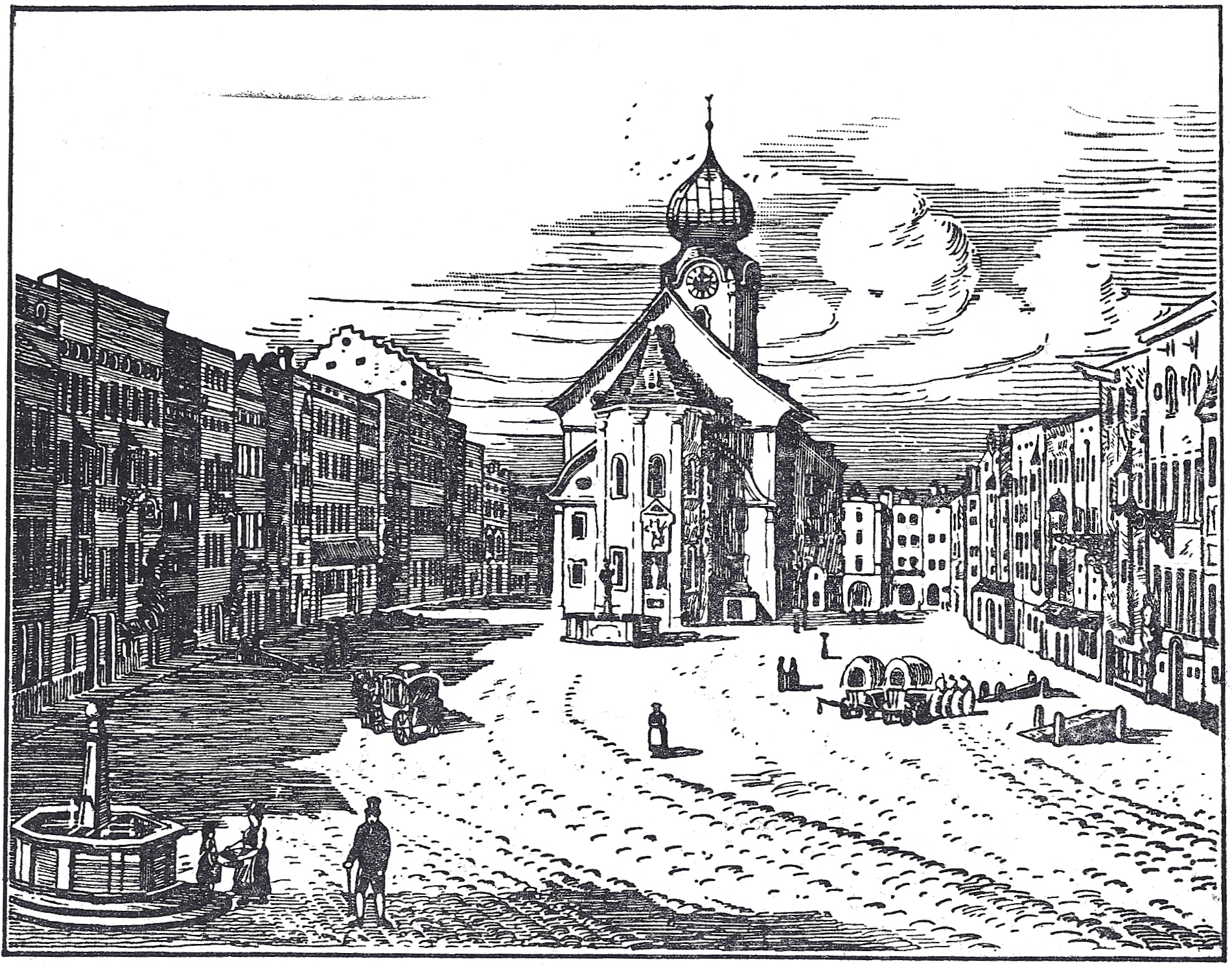 Town square of Traunstein before the last town fire 1851, printed with a Boston press.